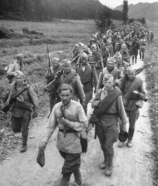 Red Army unit marching through the Korean county road.